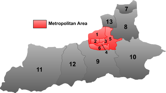 Map of Xi'an in Shaanxi province.